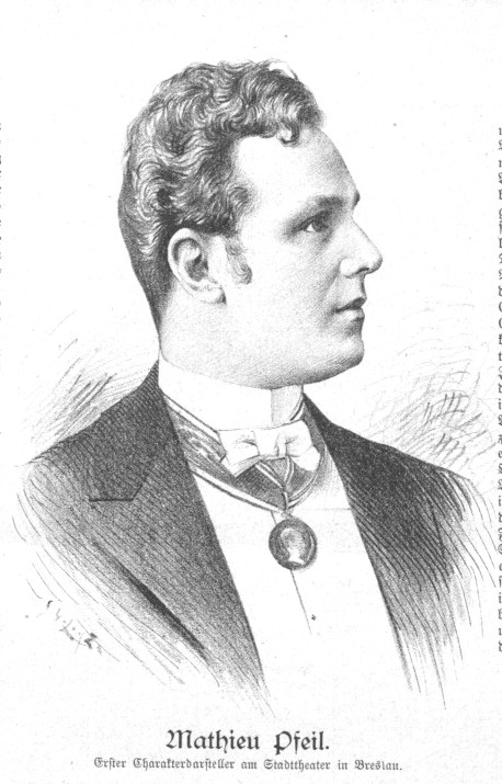 Portrait of Mathieu Pfeil (1862-1939), German actor.